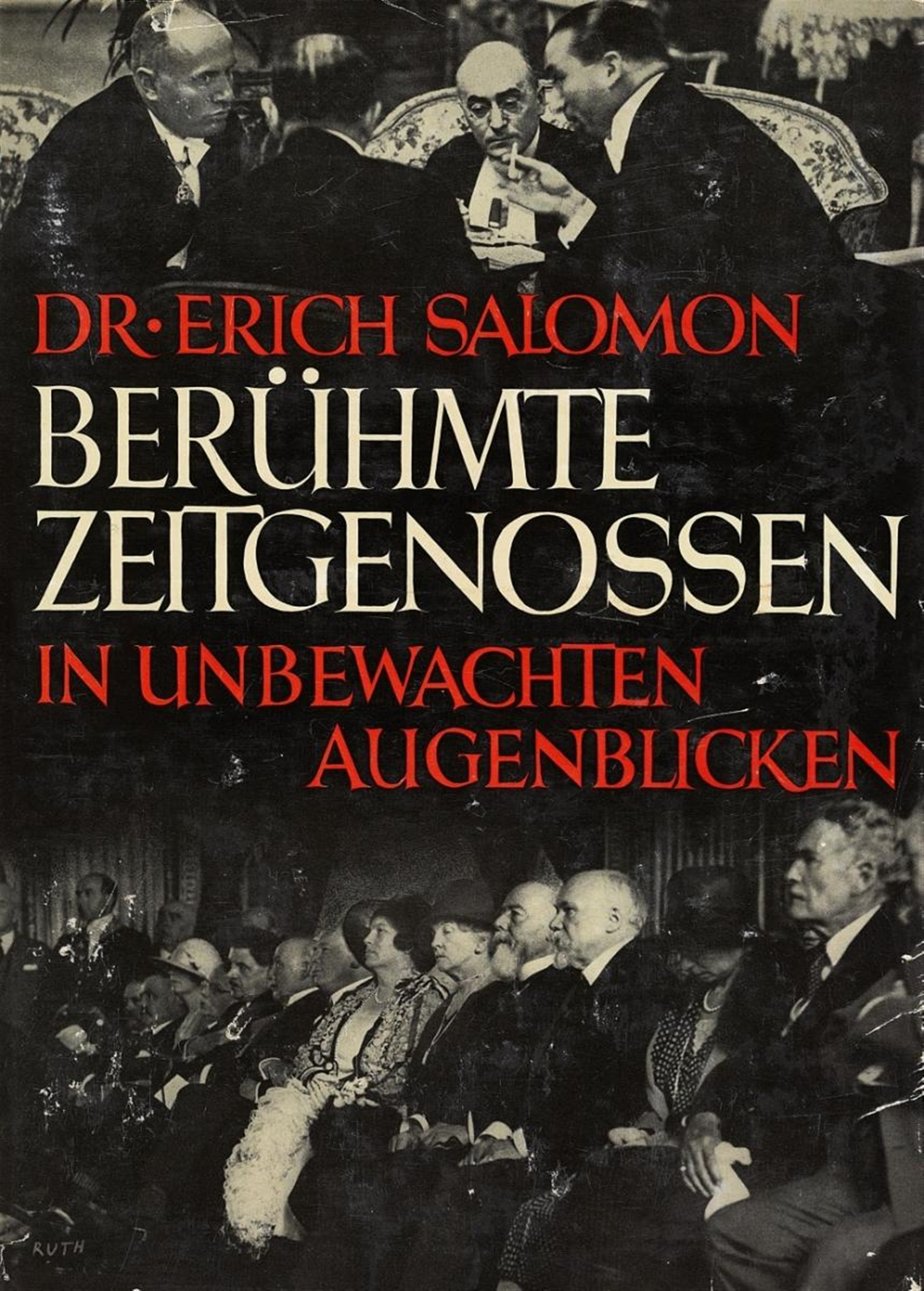 Dr. Erich Salomon: Berühmte Zeitgenossen in unbewachten Augenblicken, J. Engelhorns Nachf., Stuttgart. 25.6 x 18.3 cm. 256 pp. with 104 illustrations after photographs by Dr. Erich Salomon. Text by Dr. Erich Salomon. Original duskjacket. First edition.